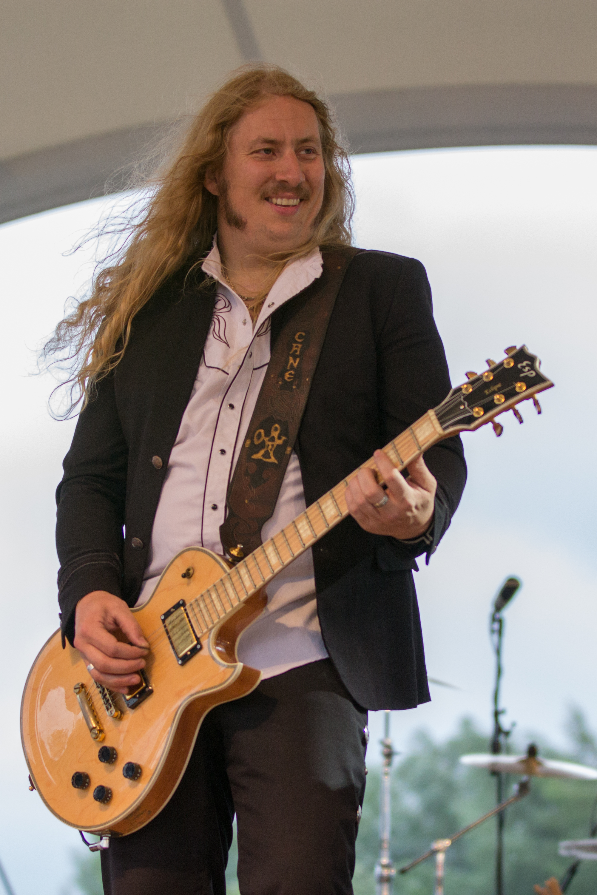 Korpiklaani at Sabaton Open Air/Noch ein Bier Fest 2015 in Amphitheater Gelsenkirchen, Germany